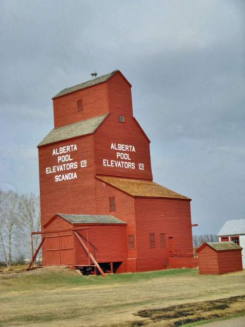 Photo of last remaing prairie grain elevators in the Scandia distric. Scandia, Alberta